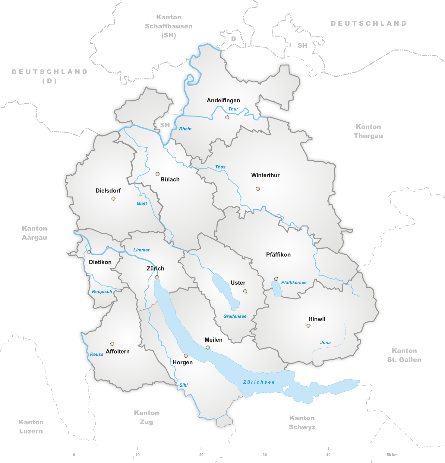 Districts of Canton Zurich to 1989/Kanton Zürich Bezirke ab 1989